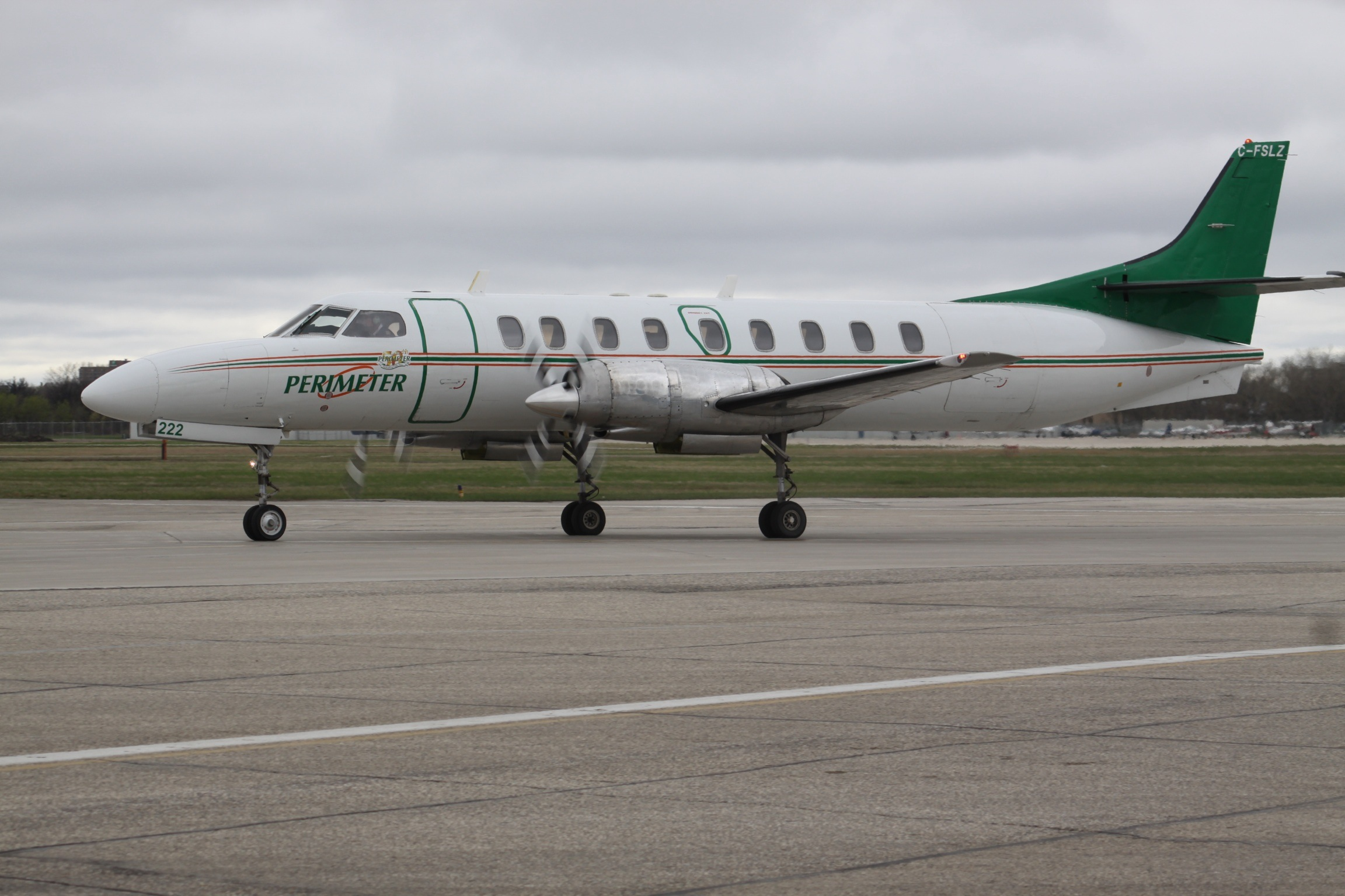 At Winnipeg James Armstrong Richardson International